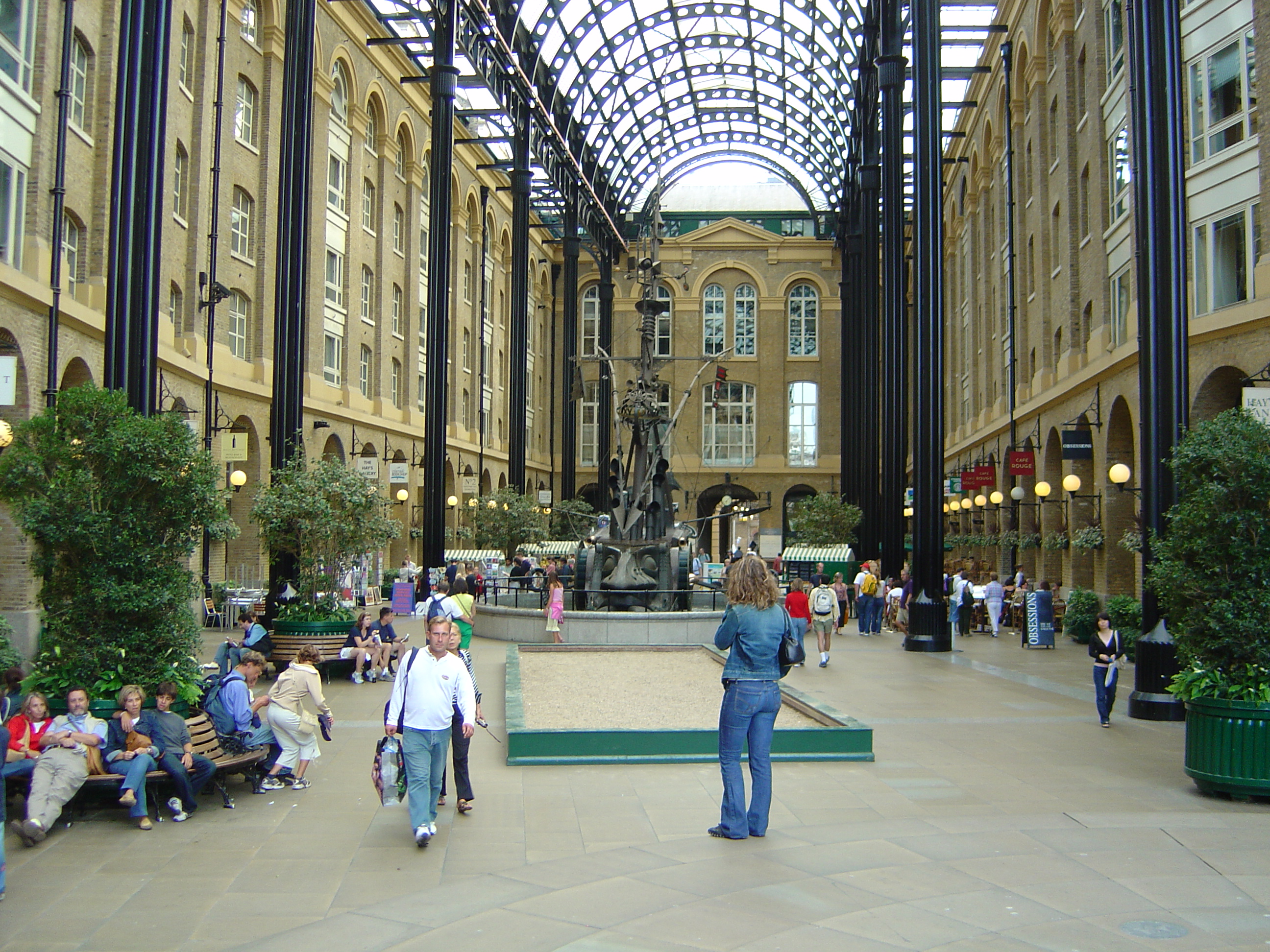 Southwark 1